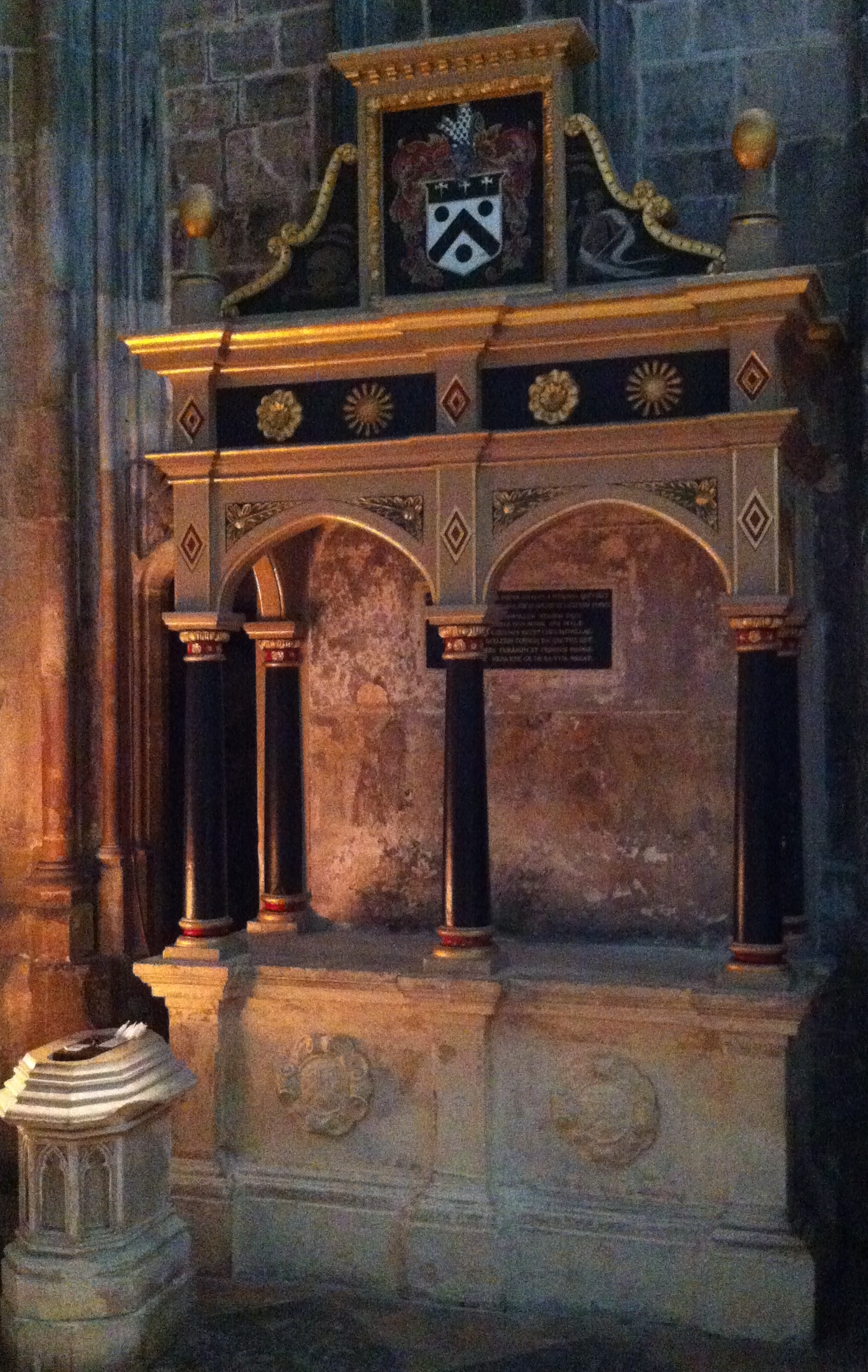 Died 29 October 1588